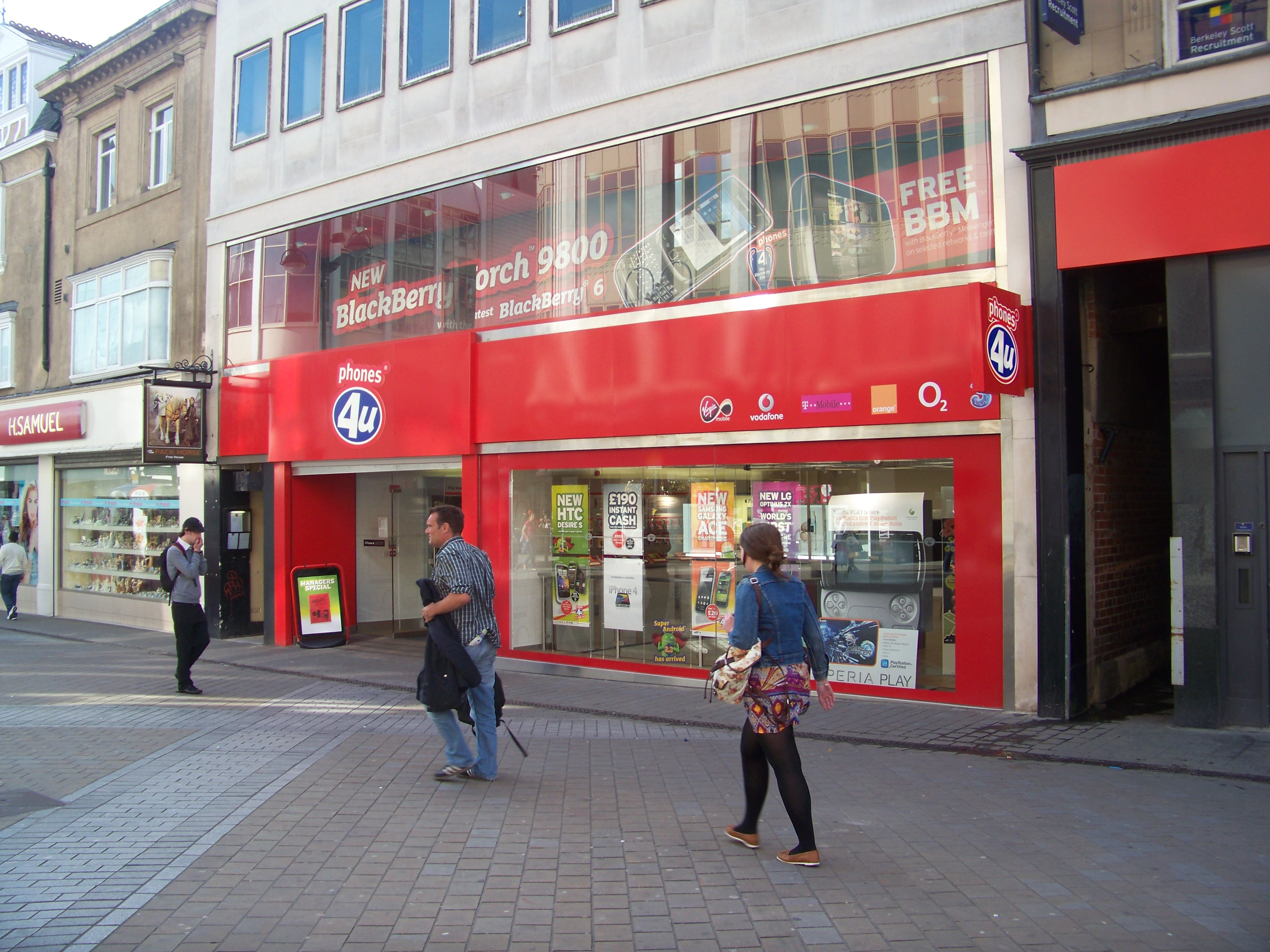 Phones 4 U on Briggate in Leeds, West Yorkshire. Taken on the afternoon of Monday the 11th of April 2011.